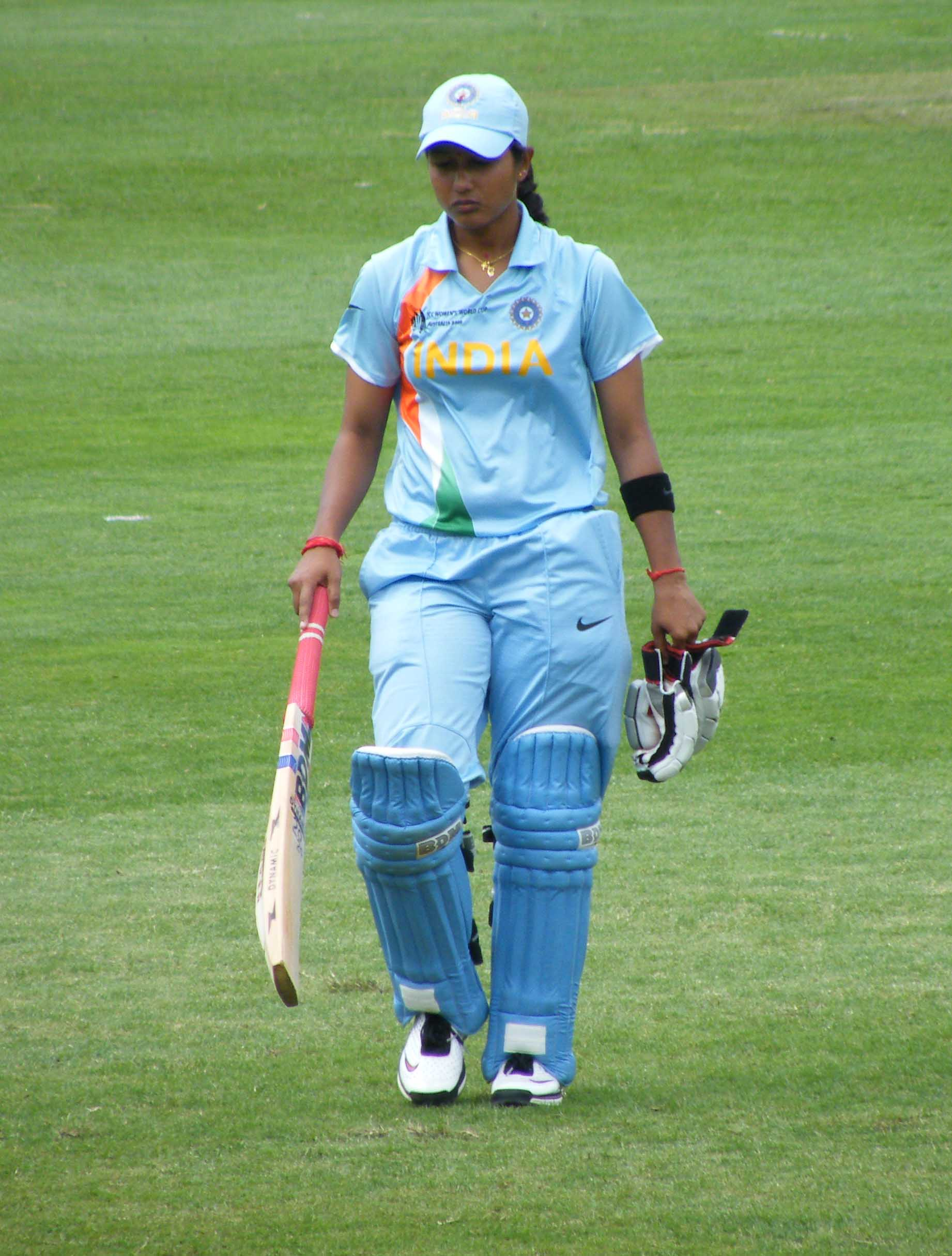 Member of India's Women's Cricket World Cup team returning to the pavilion at the end of her innings, Sydney, March 3, 2009